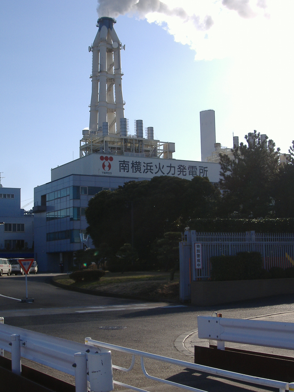 South-Yokohama Powerplant (Yokohama,Japan)